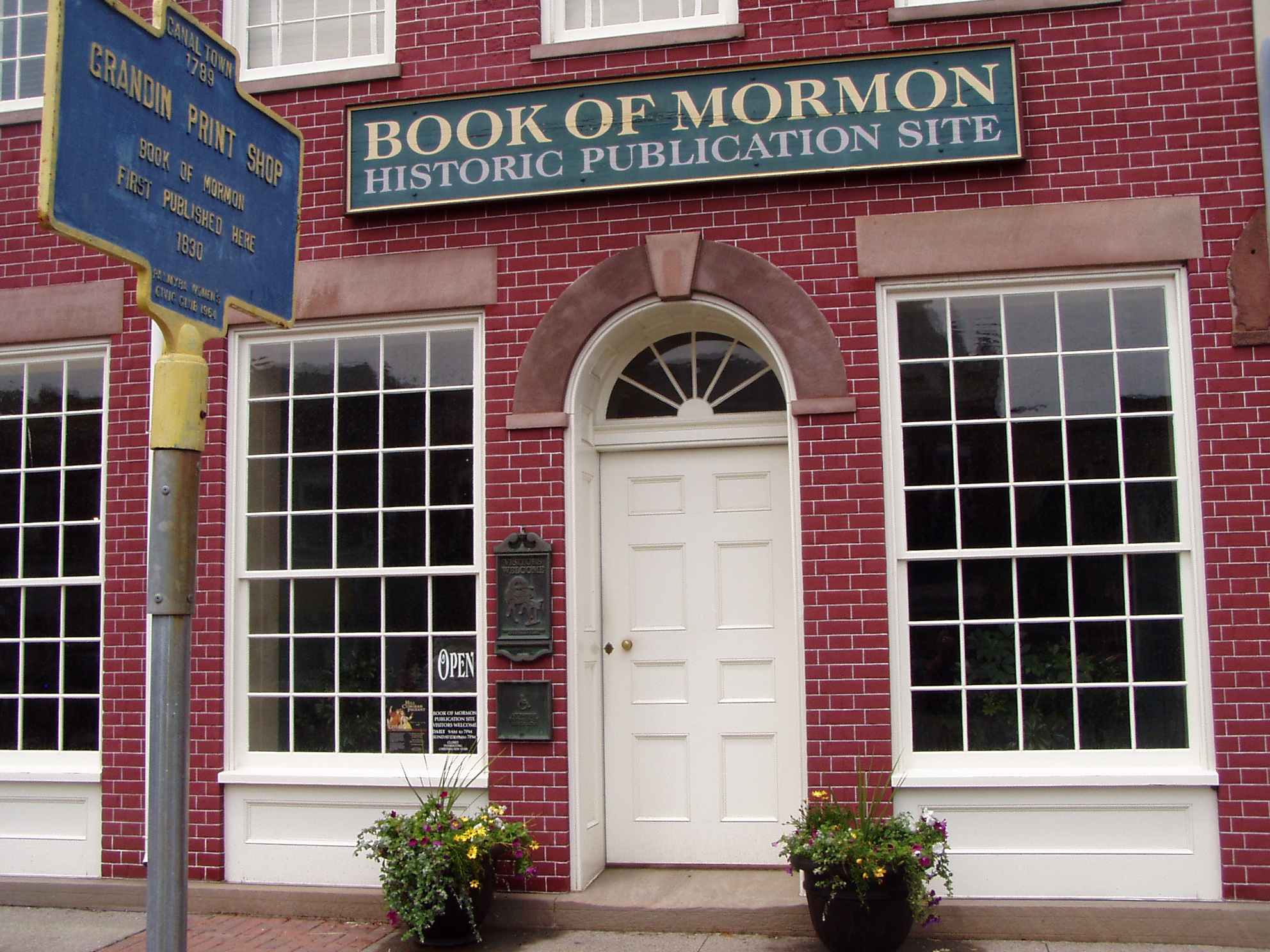 The Book of Mormon Historic Publication Site on Main Street in Palmyra, New York. The Book of Mormon was published for the very first time in this building during 1830. The building is currently owned and operated as a historic site by The Church of Jesus Christ of Latter-day Saints.